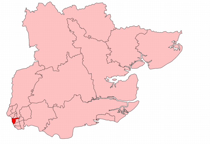 A map of Stratford constituency within Essex, as it existed from 1918 to 1950.